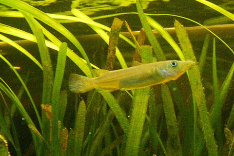 Freshwater halfbeak, female Nomorhamphus sp., probably Nomorhamphus liemi liemi, in aquarium.